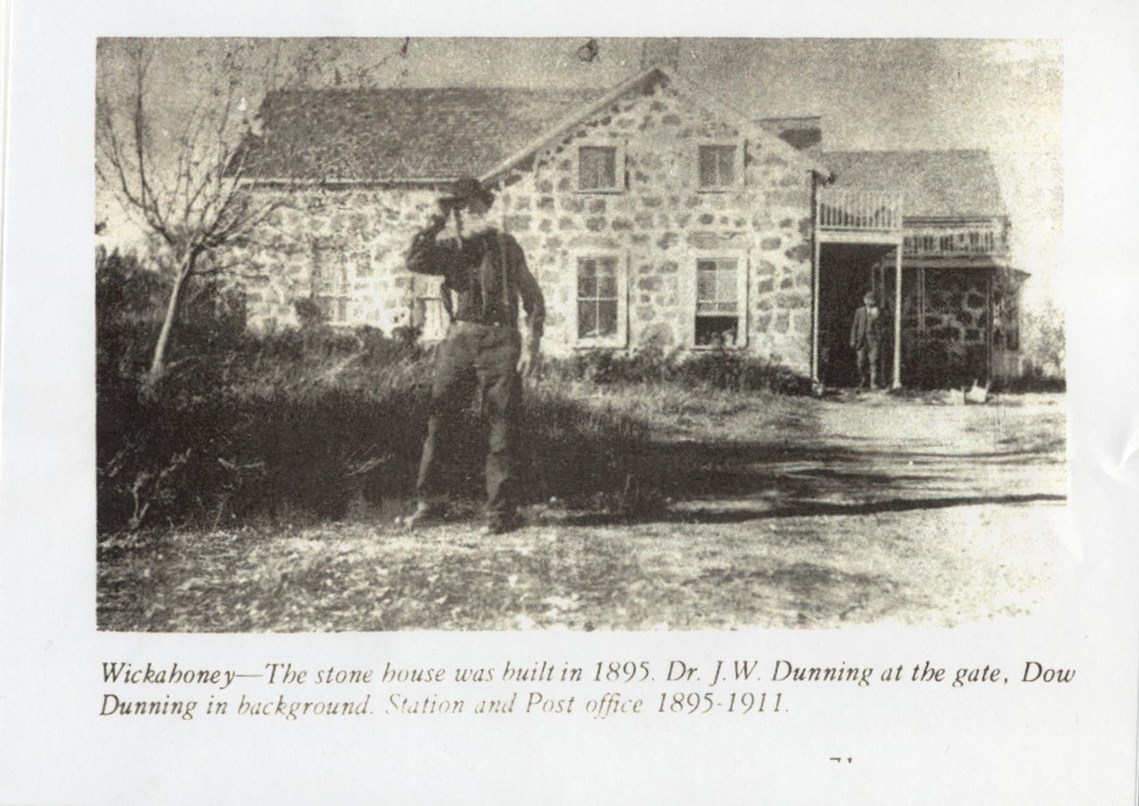 The Wickahoney Post Office and Stage Station — in Owyhee County, Idaho.